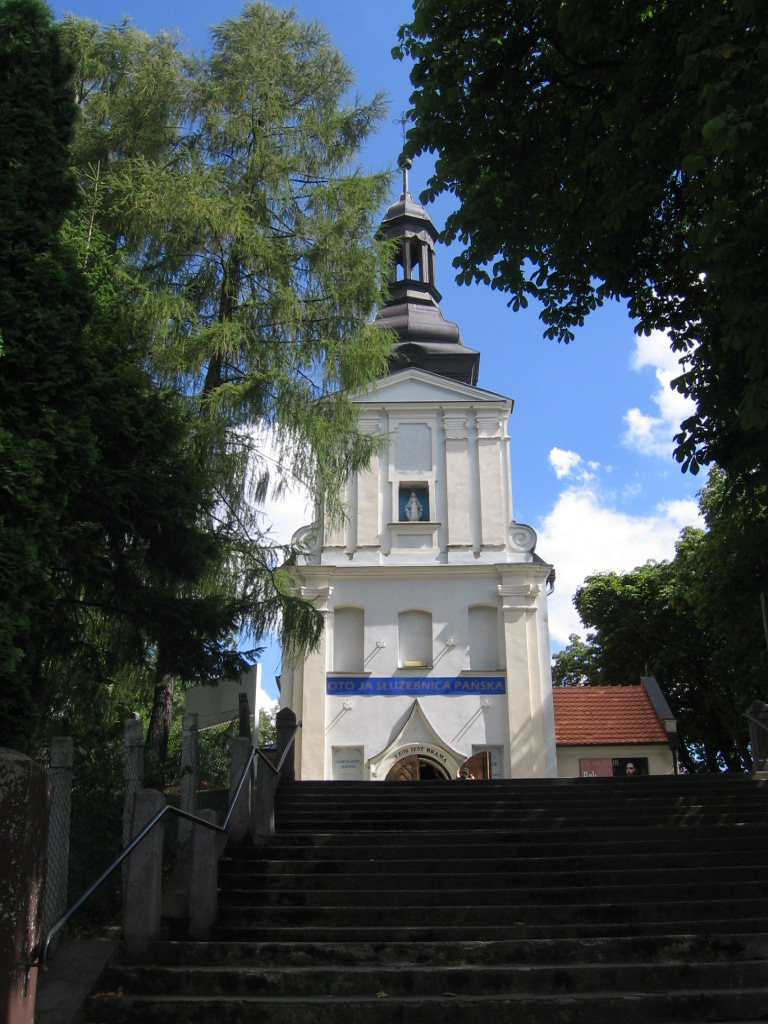 Church of Birth of Blessed Virgin Mary in Tulce, Kleszczewo Commune, Poznań County, Greater Poland Voivodeship, Poland. West part.